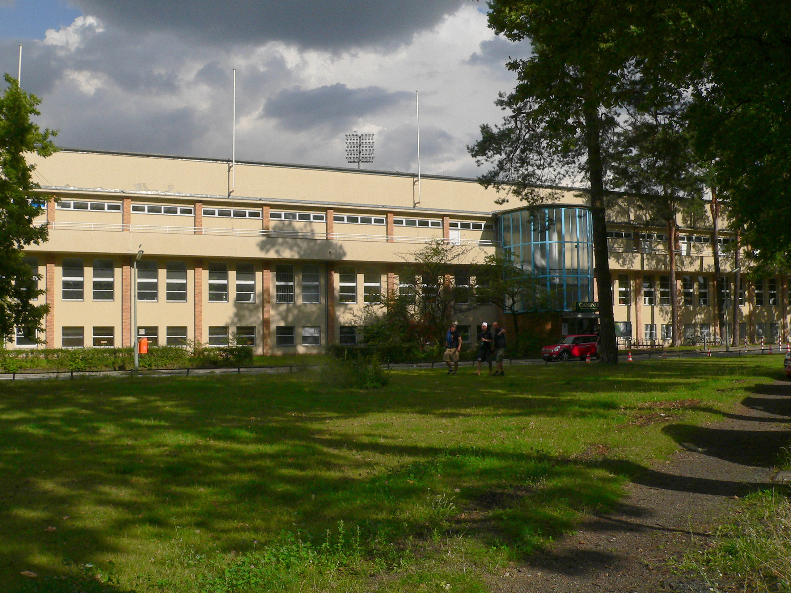 Berlin-Westend Mommsenstadion